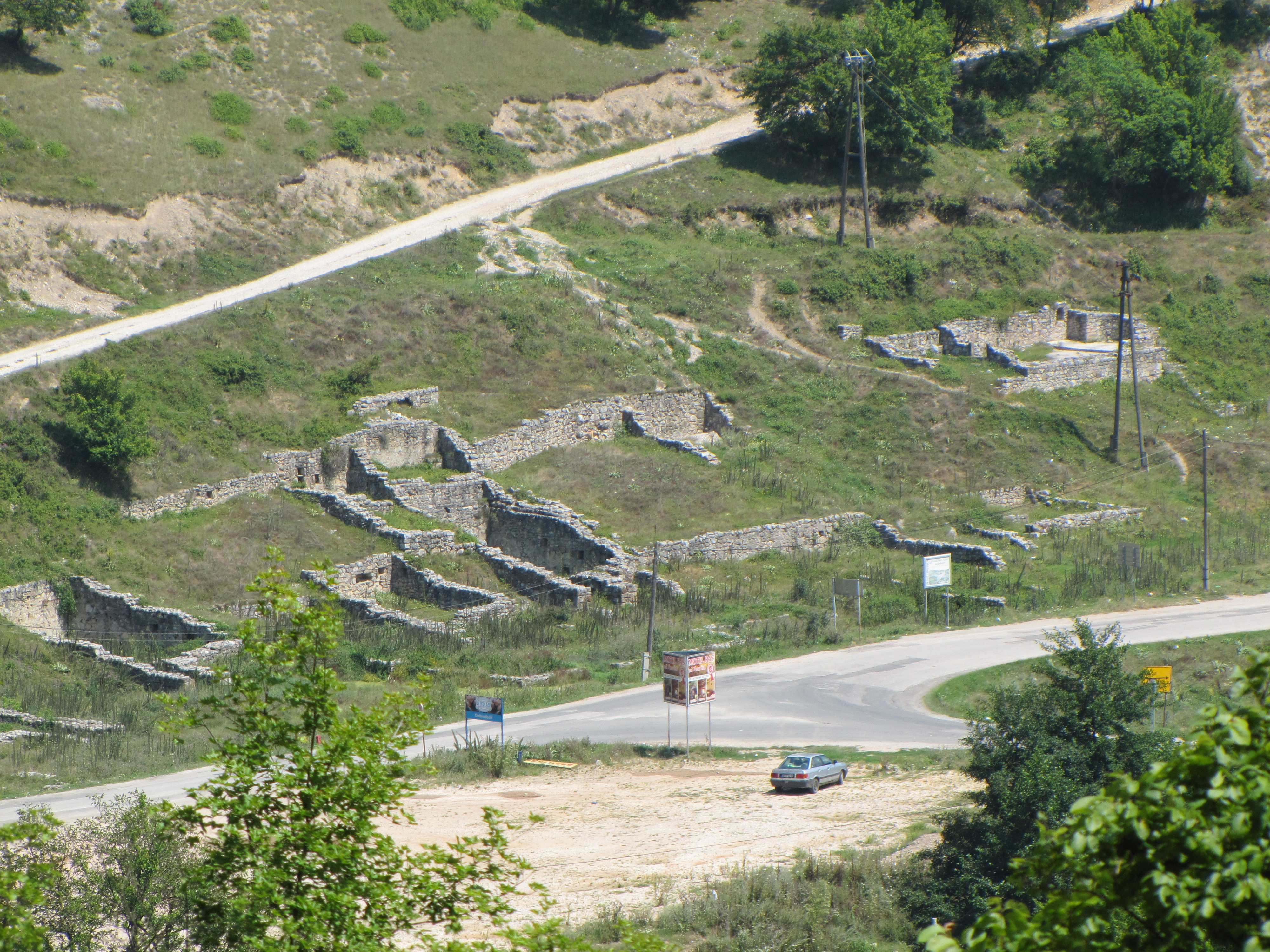 Medieval settlement Ras, near Novi Pazar (SW Serbia). View from the Vilin Razboj cave.